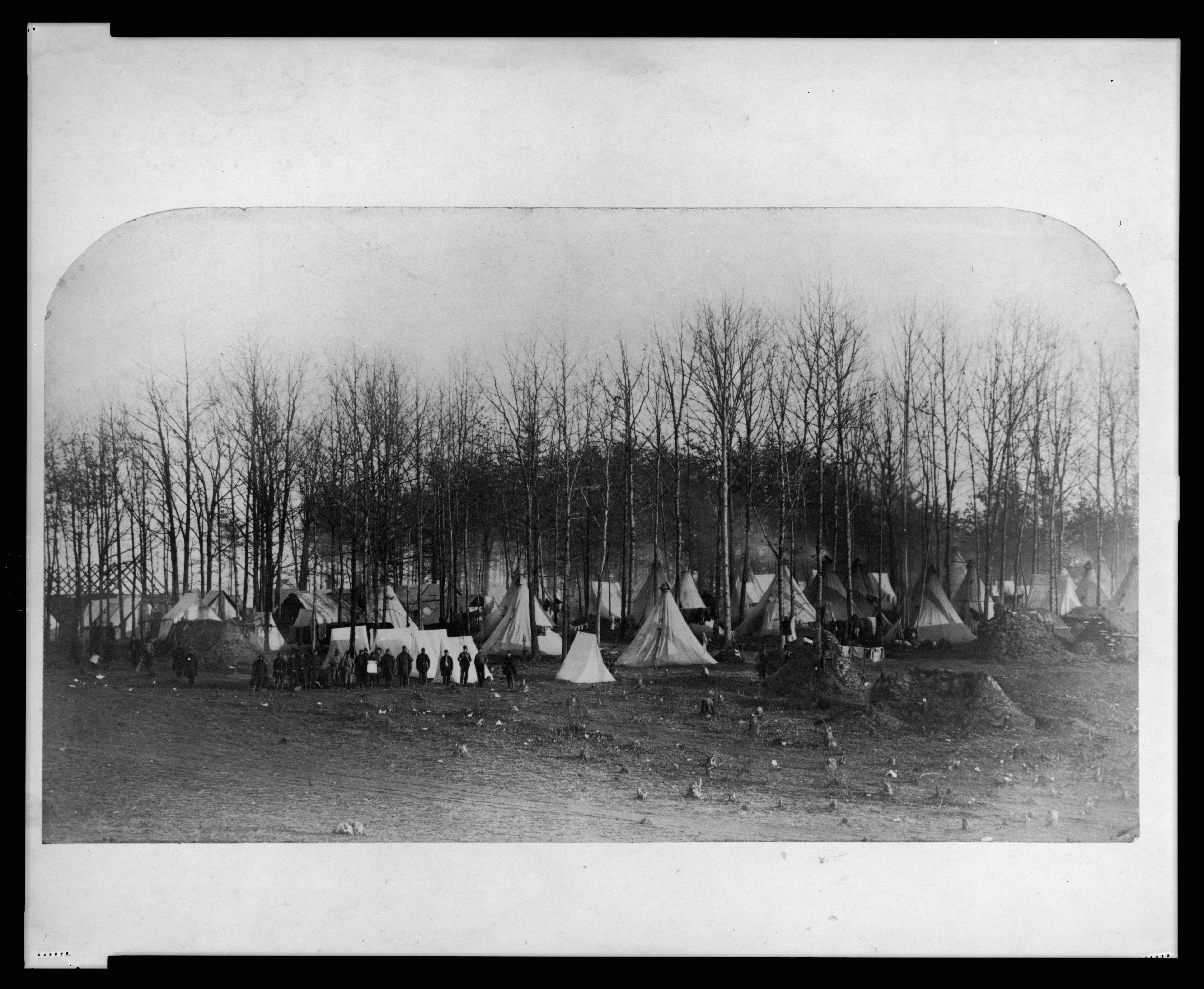 Title: Camp of 2nd Vermont Volunteers at Camp Griffin, Virginia Abstract/medium: 1 photographic print : salted paper.